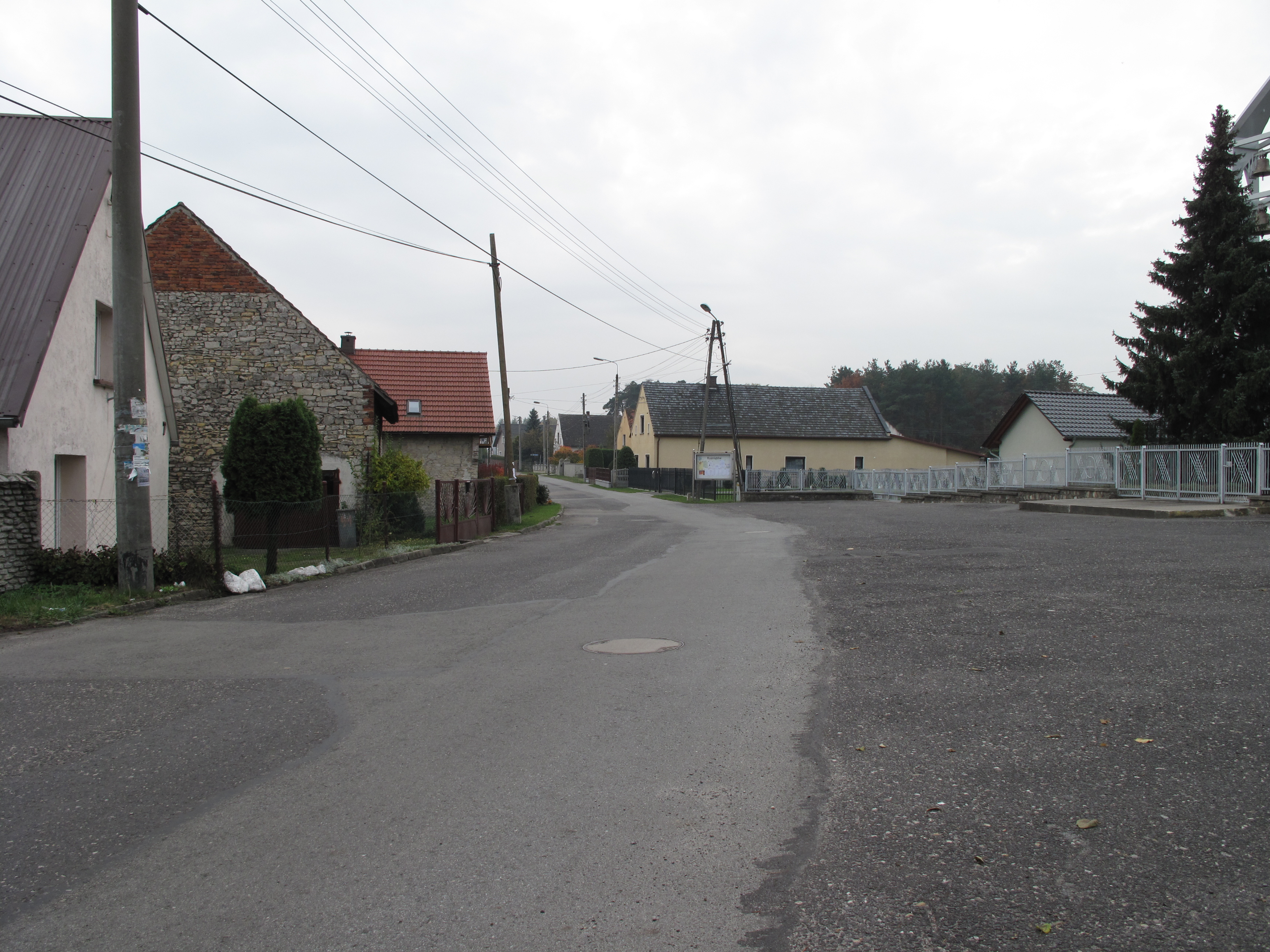 Rożniątów. Strzelce County, Poland